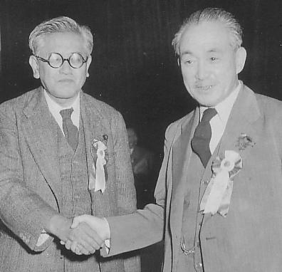 Jotaro Kawakami and Mosaburo Suzuki